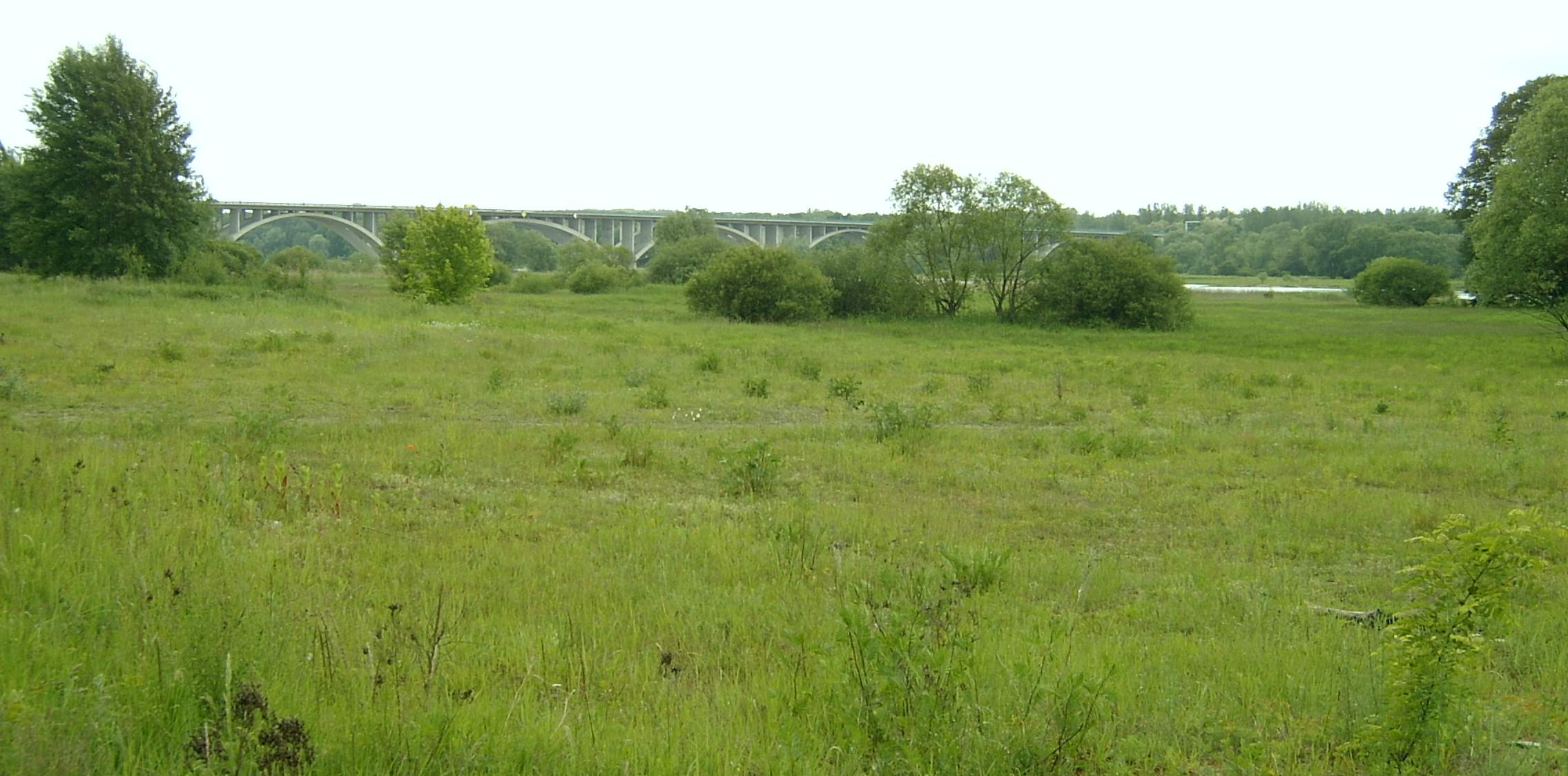 border crossing Autobahn bridge Frankfurt (Oder) - Świecko view from North